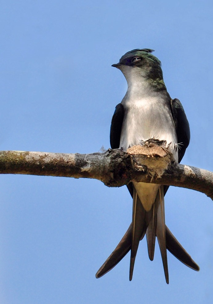 A female perched on a nest. Clutter from branches in the background have been cloned. No other modifications have been made to the bird itself.